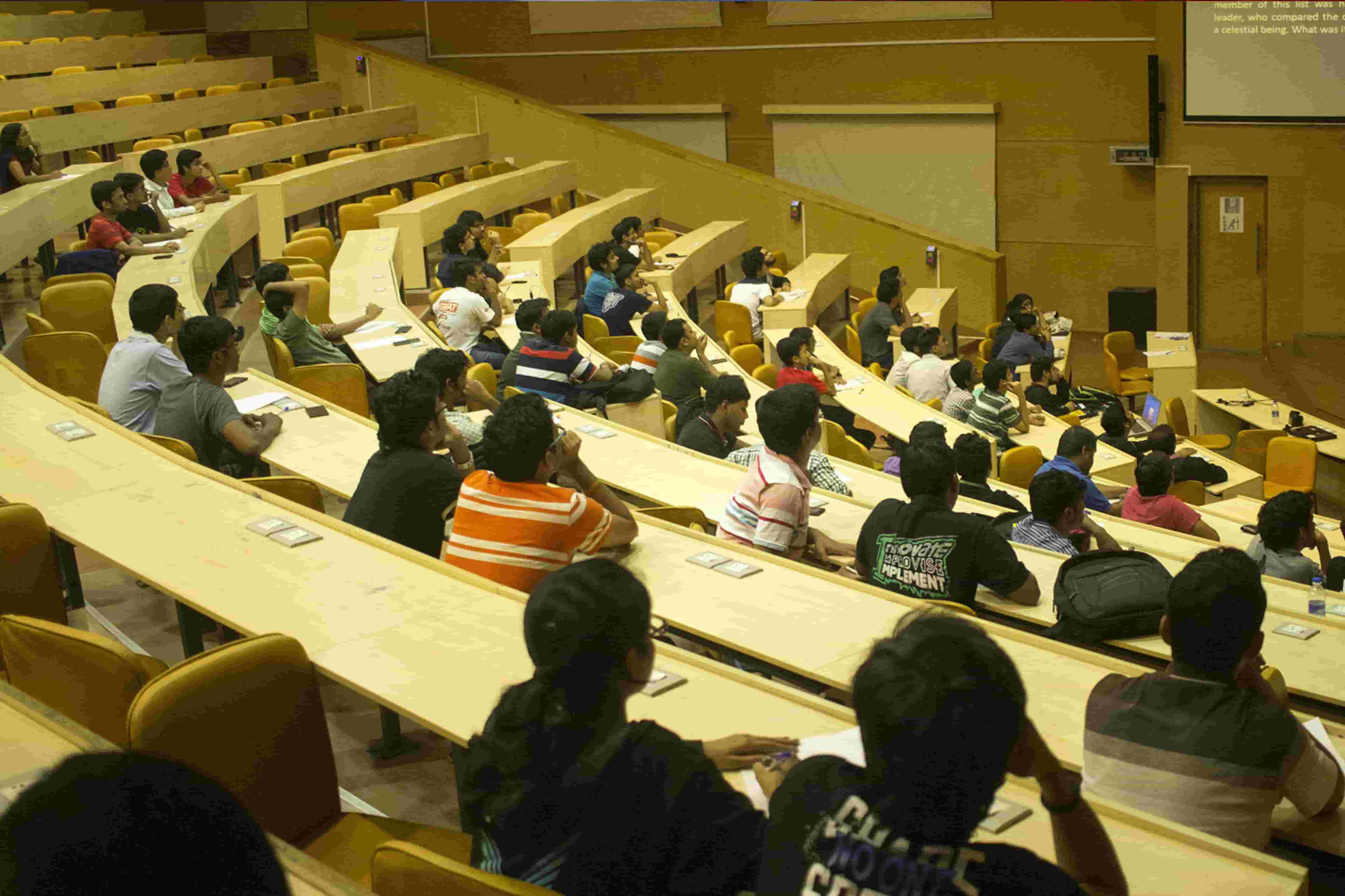 Quora meetup for content writers